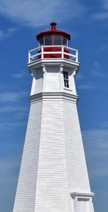 Cape Jourimain Lighthouse post-renovation.